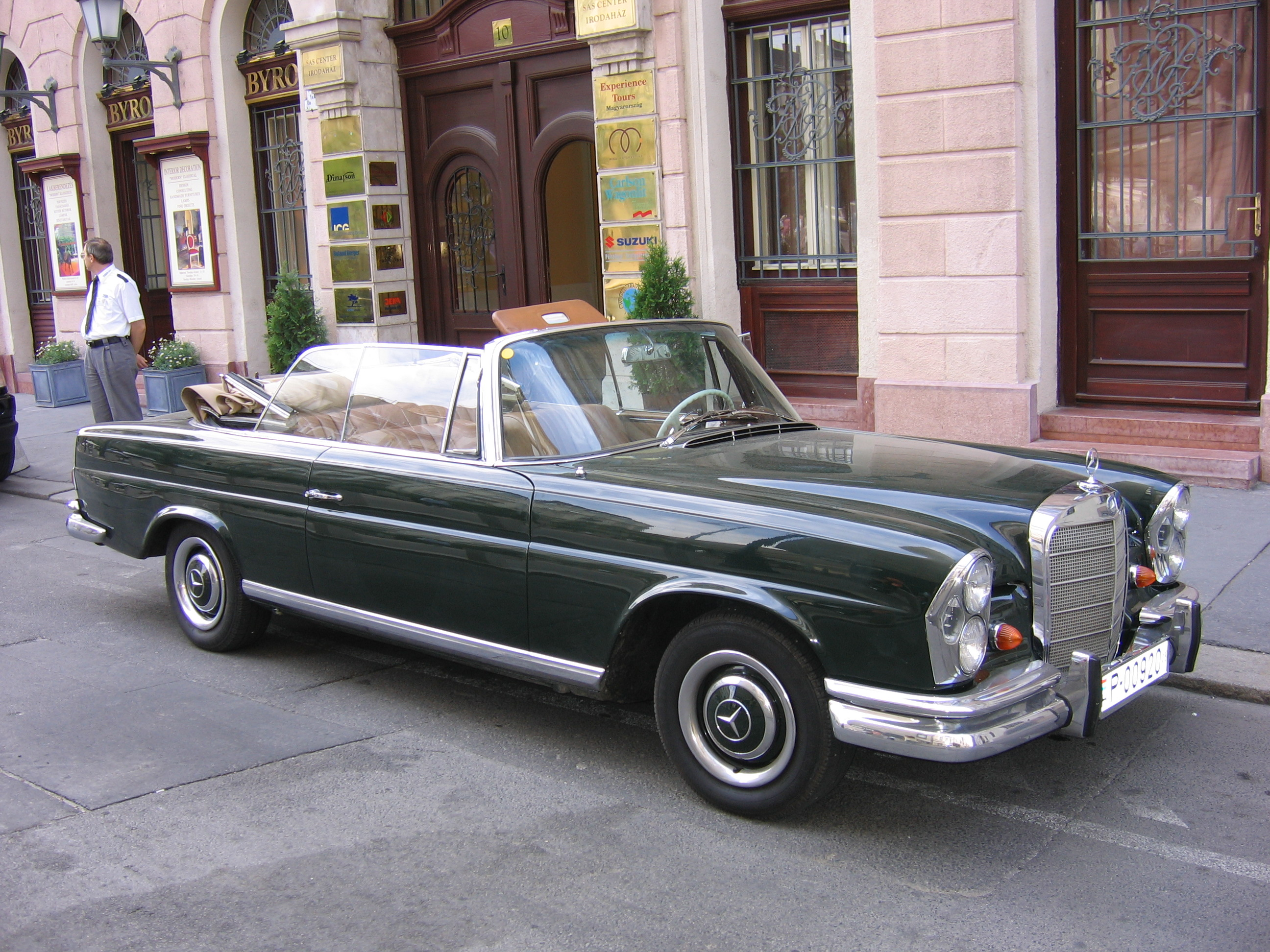 Mercedes in Budapest